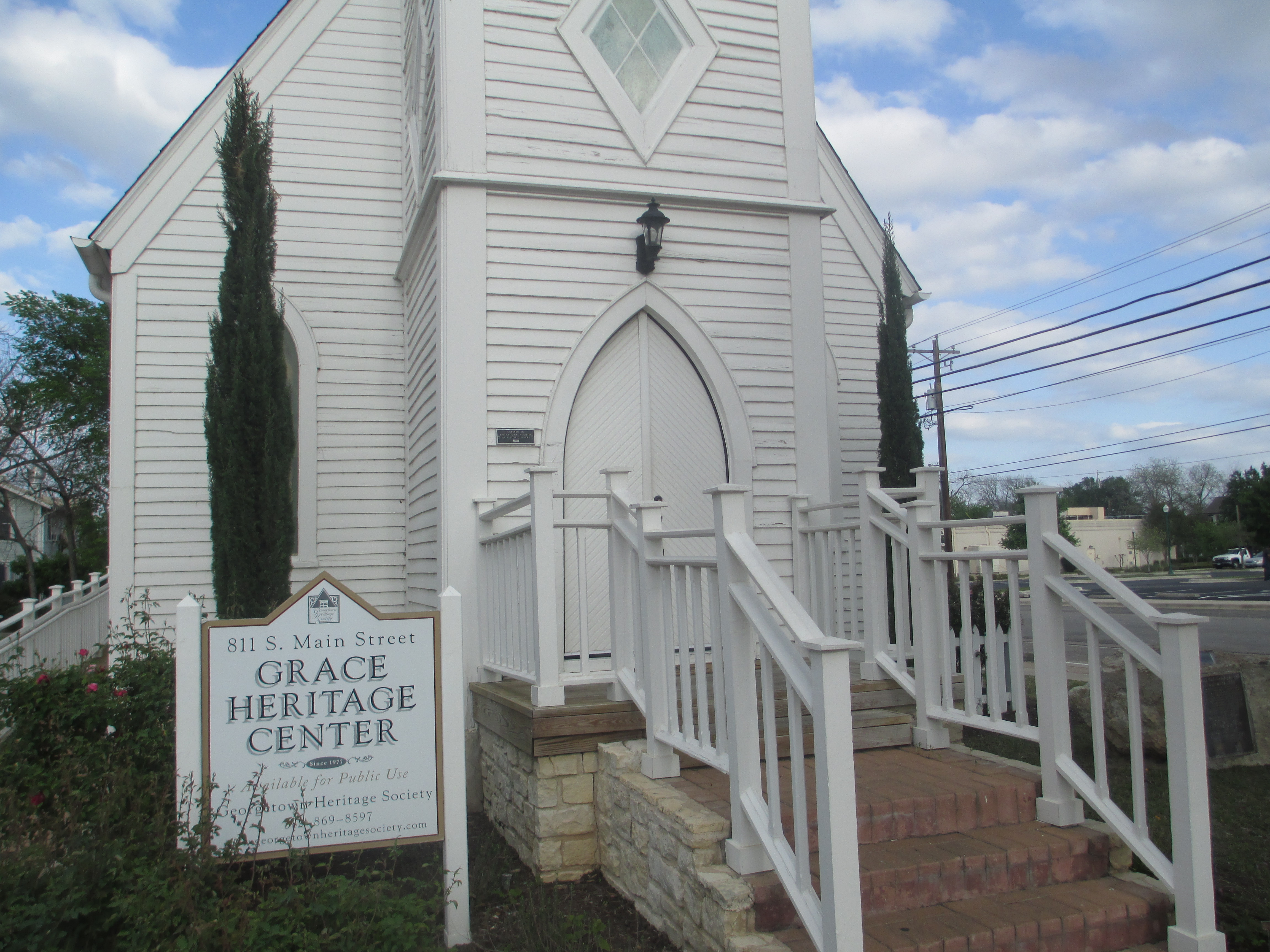 I took photo of Grace Heritage Center in Georgetown, TX, located in a former church building. Taken with Canon camera, April 7, 2013. Billy Hathorn (talk) 11:25, 10 April 2013 (UTC)